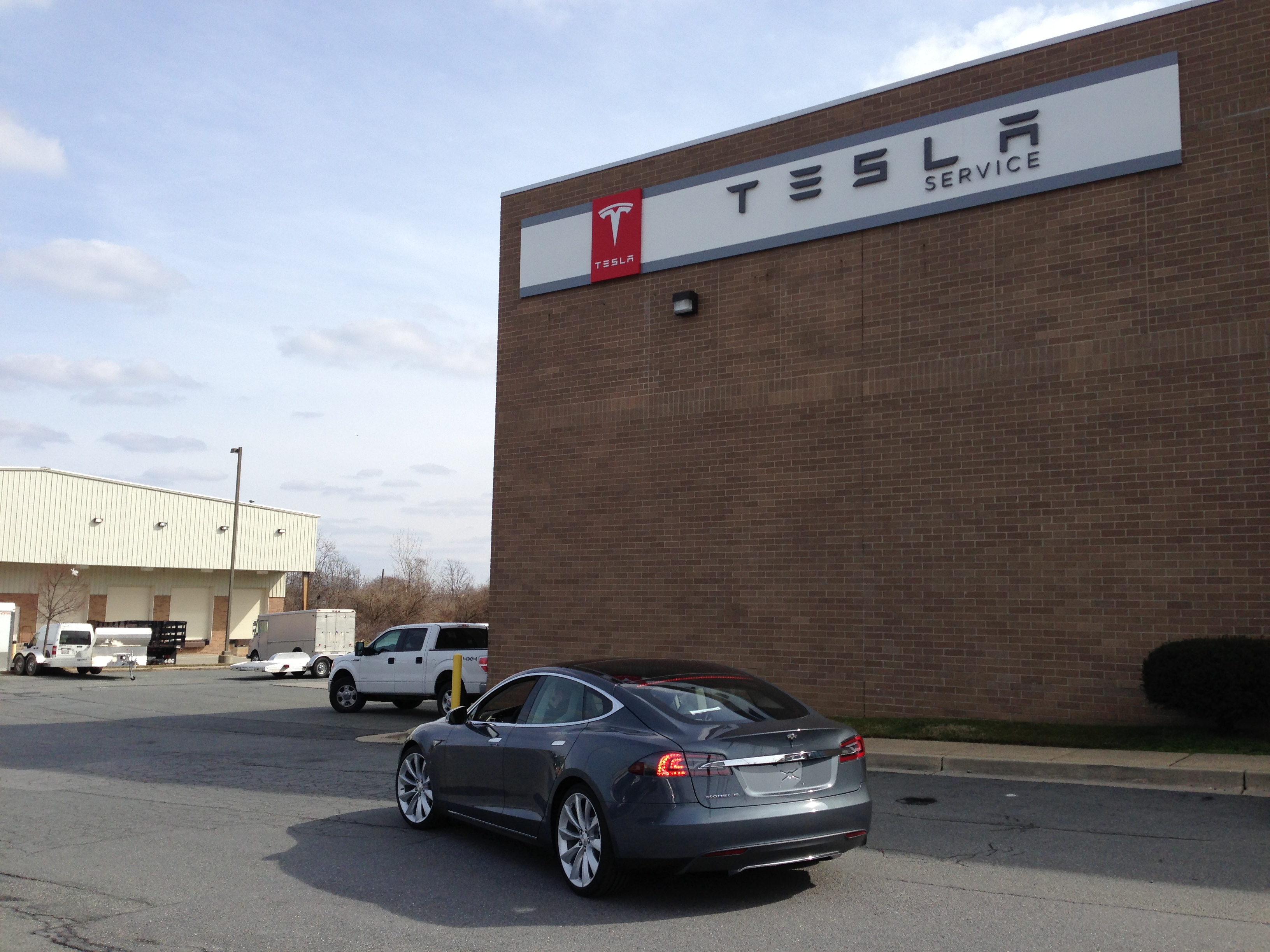 Tesla Model S in front of a Tesla Motors Service facility